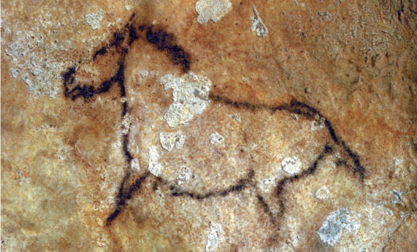 Santimamiñe cave painting